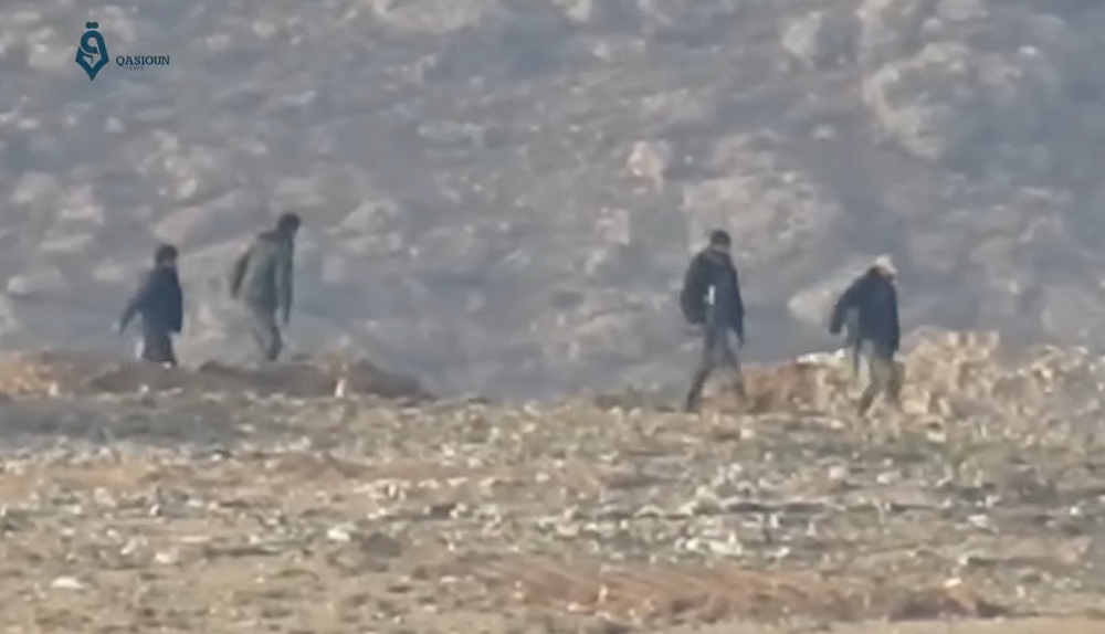 Pro-government (NDF) fighters during the Siege of Wadi Barada.